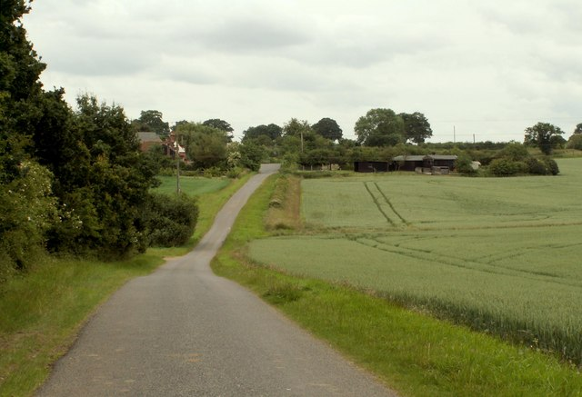 Part of Tawney Common This picture is classified supplemental as there is a different grid square either side of the road.